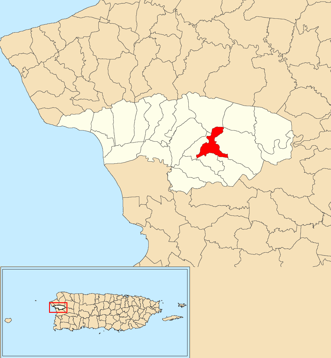 Cidra, Añasco, Puerto Rico locator map